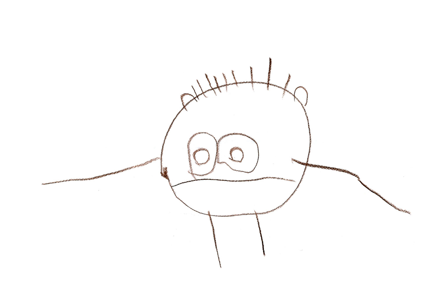 A childs drawing, crayon on paper, child was 3 years old